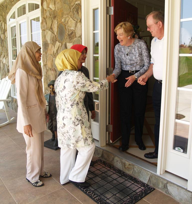 Friendship Force visitors from Indonesia meet their hosts in Hartwell, Georgia, USA.